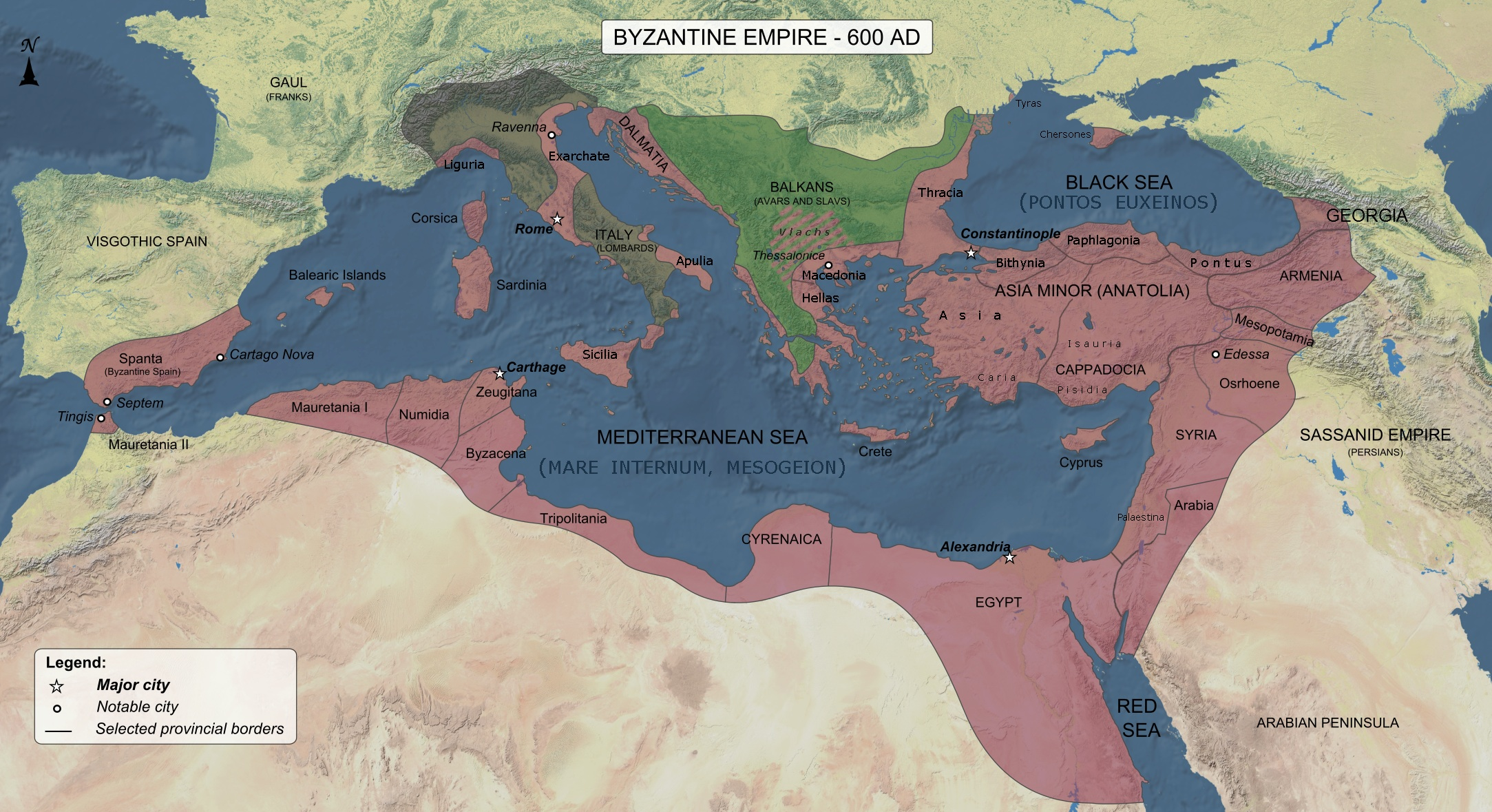 A map of the Byzantine Empire in 600AD